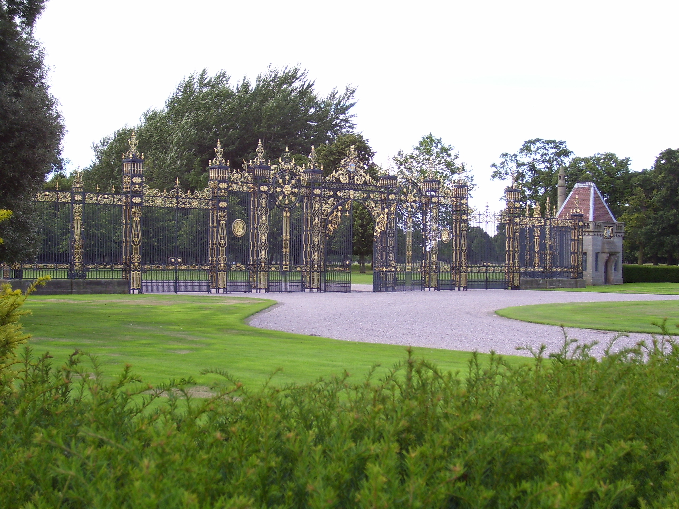 The Golden Gates at the East end of Belgrave Avenue Eaton Hall Cheshire